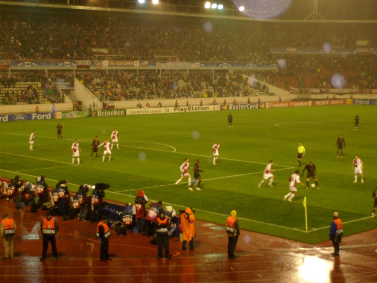 Champions League 2007-08 match between Slavia and Arsenal in Prague. Result was 0-0.